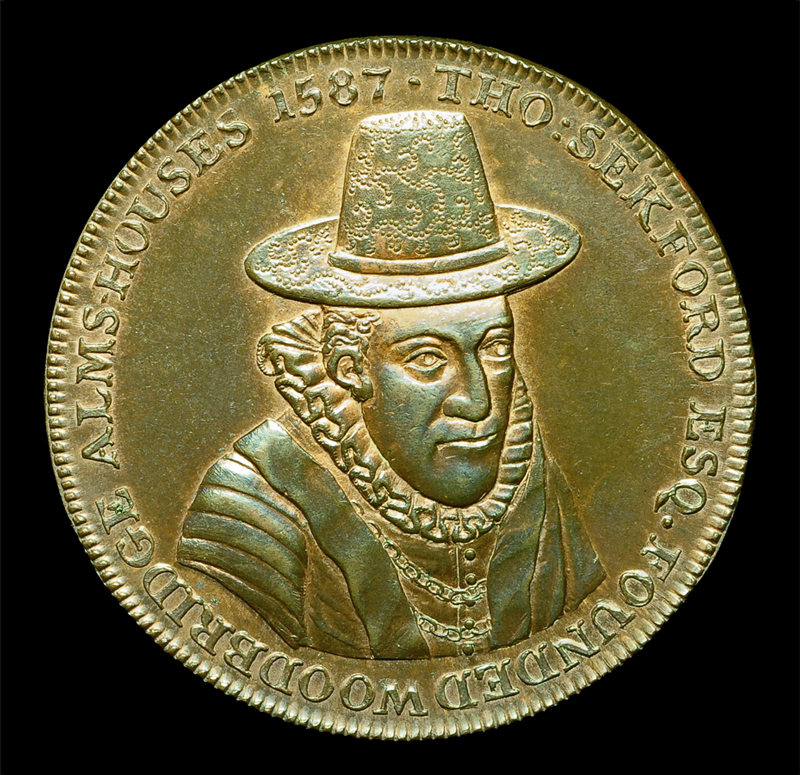 Thomas Sekford One Penny Conder Token, issued 1796. Obverse.